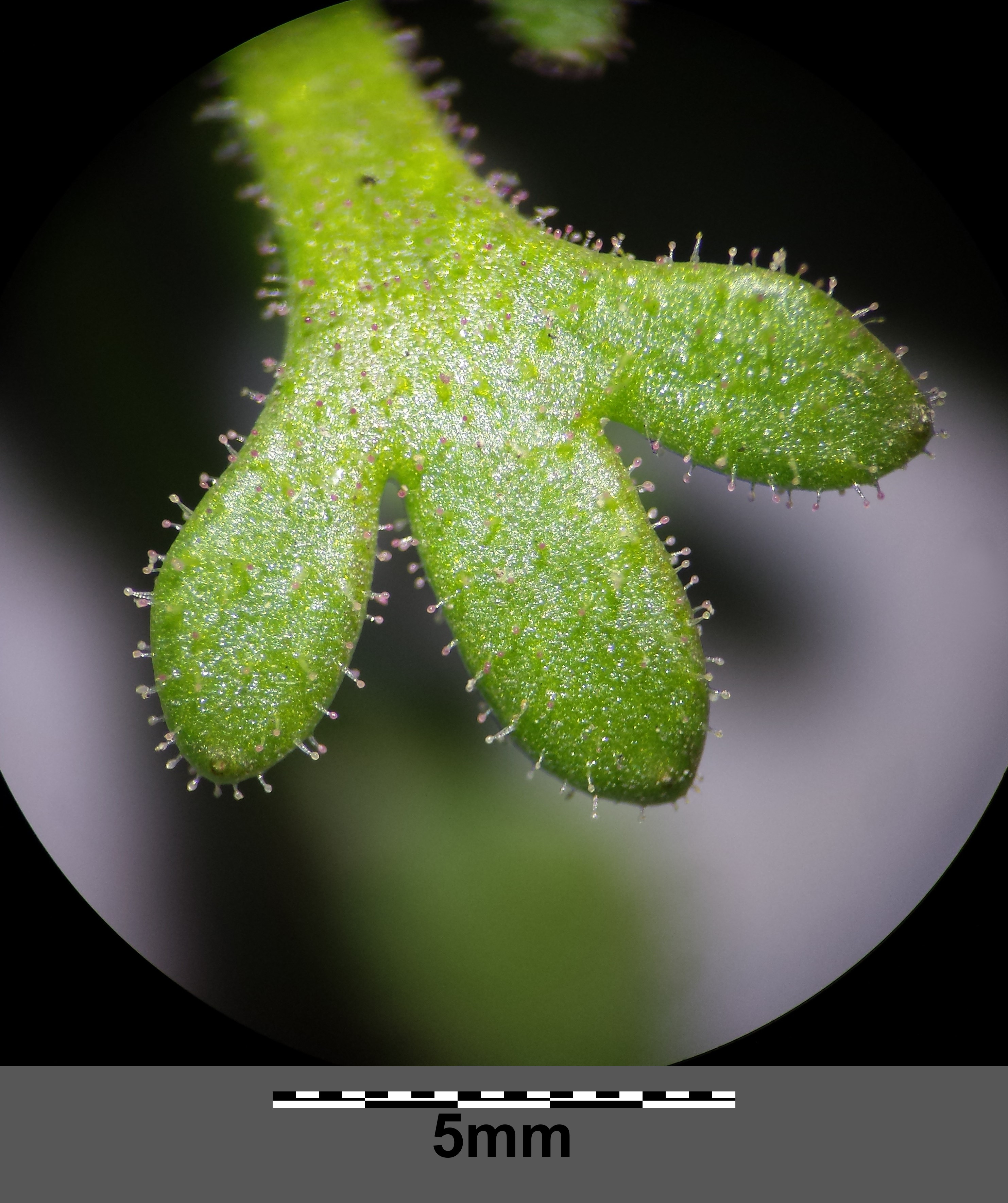 Leaf with glandular hairs Taxonym: Saxifraga tridactylites ss Fischer et al. EfÖLS 2008 ISBN 978-3-85474-187-9 Location: Neue Donau, Vienna-Floridsdorf - ca. 160 m a.s.l. Habitat: dry slope